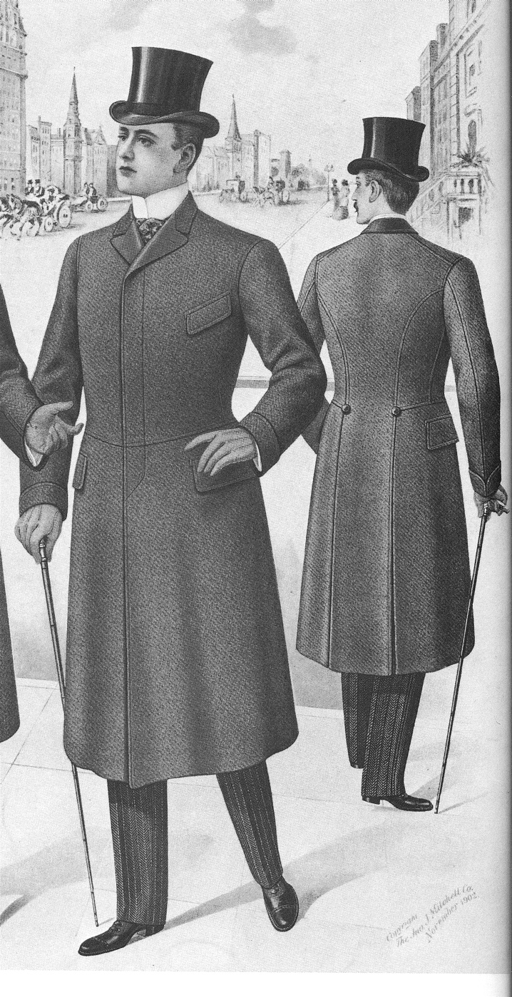 A plate of a paletot coat (side bodies, waist seam) from 1903